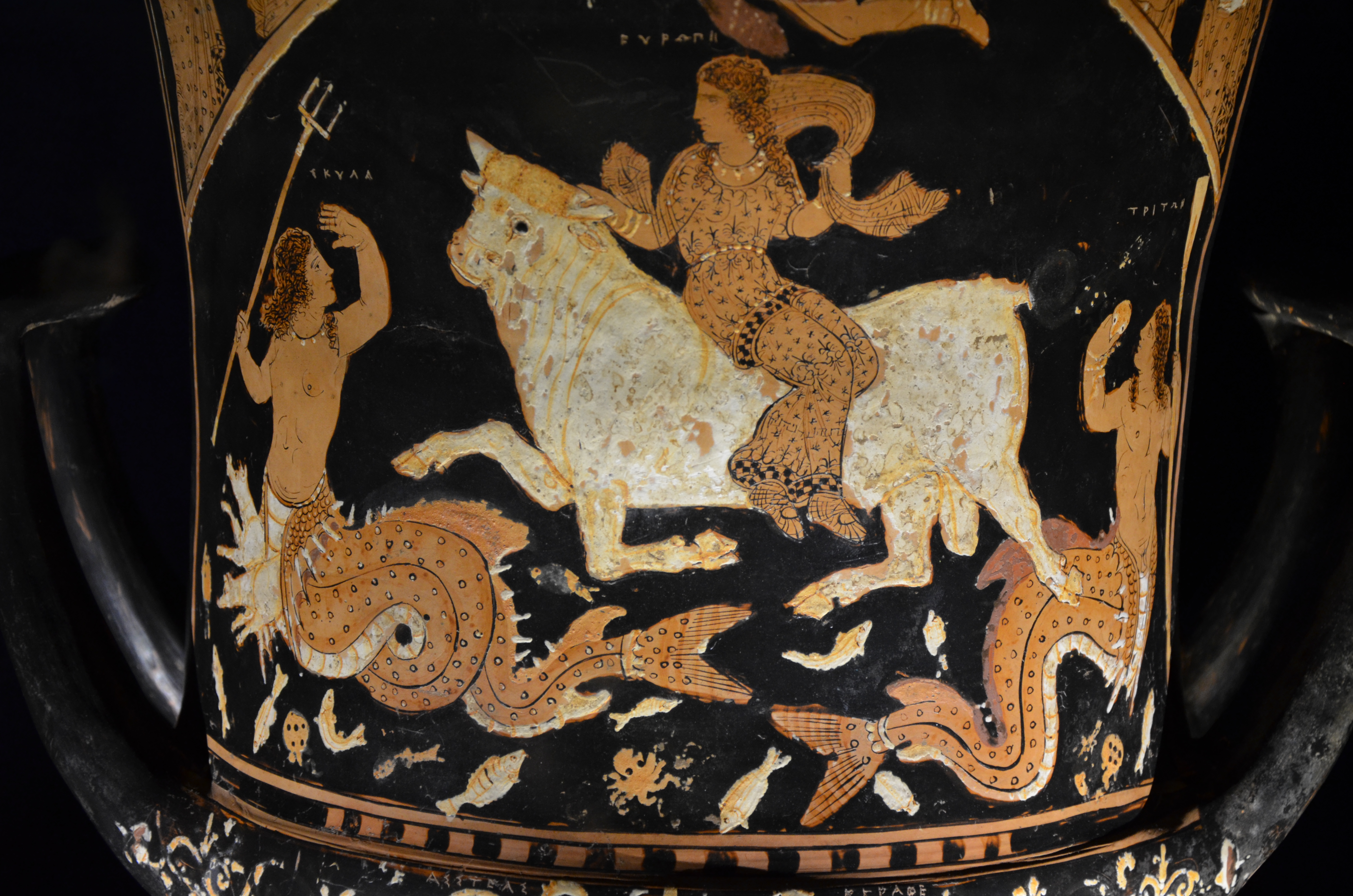 Krater (350–340 BC) from Saticula, believed to have been painted by Asteas (National Archaeological Museum at Paestum, Italy). Depicts the Rape of Europa by Zeus in the guise of a white bull, trampling sea monsters and miscellaneous sea life. Photographed at the Fantastic Creatures of Fear and Myth Exhibition, Palazzo Massimo alle Terme, Rome, 2014. Returned from the Getty to Italy in 2005: Statement Regarding Returned Objects From the Getty, November 7, 2005 Greek vase returns home: Ancient chalice back at Paestum from Getty, 24 November 2009 "A priceless vase dating back to the 4th century BC has arrived home after more than three decades abroad and four years touring Italy."